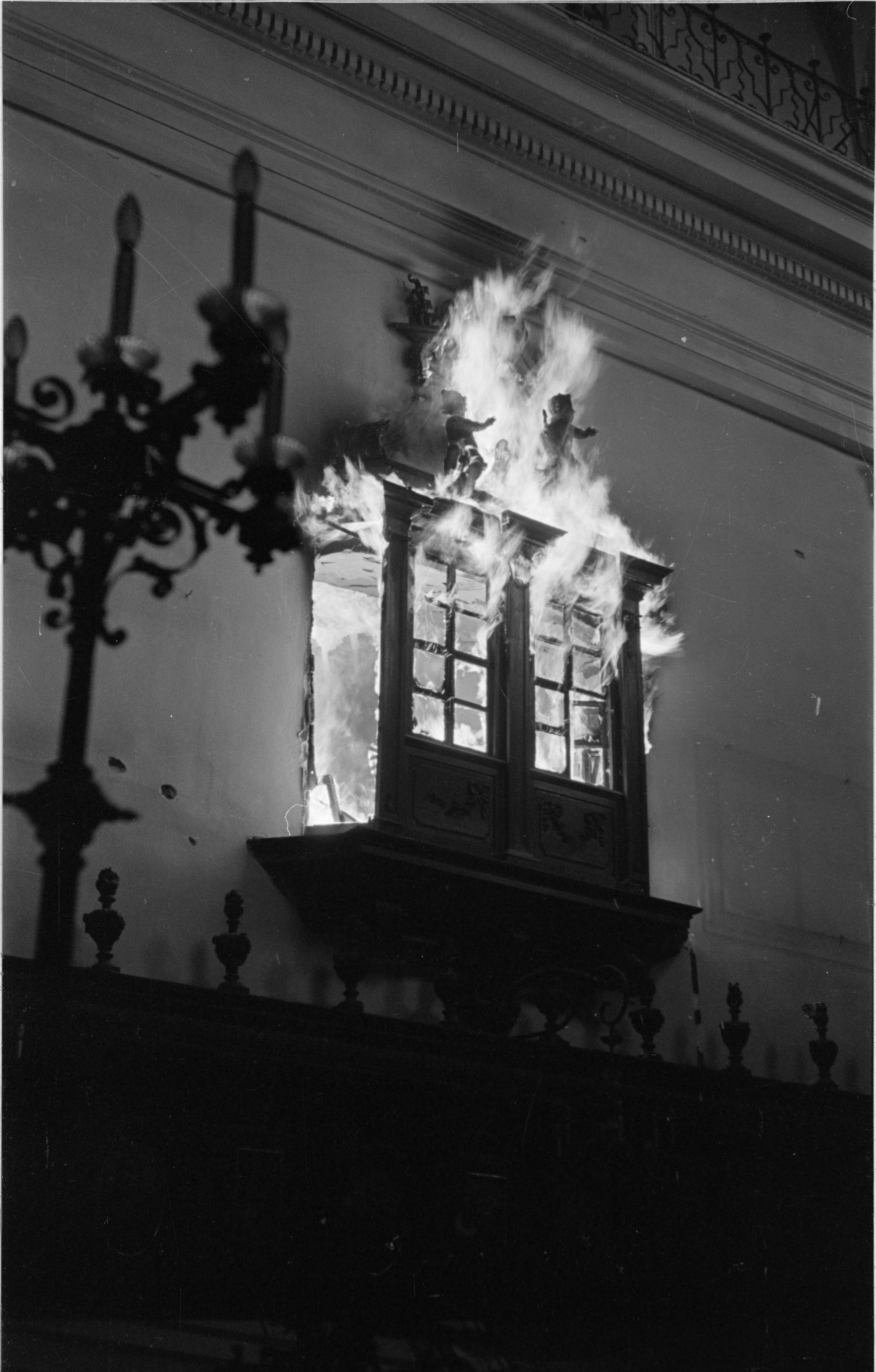 Warsaw Uprising: Burning Holy Cross Church